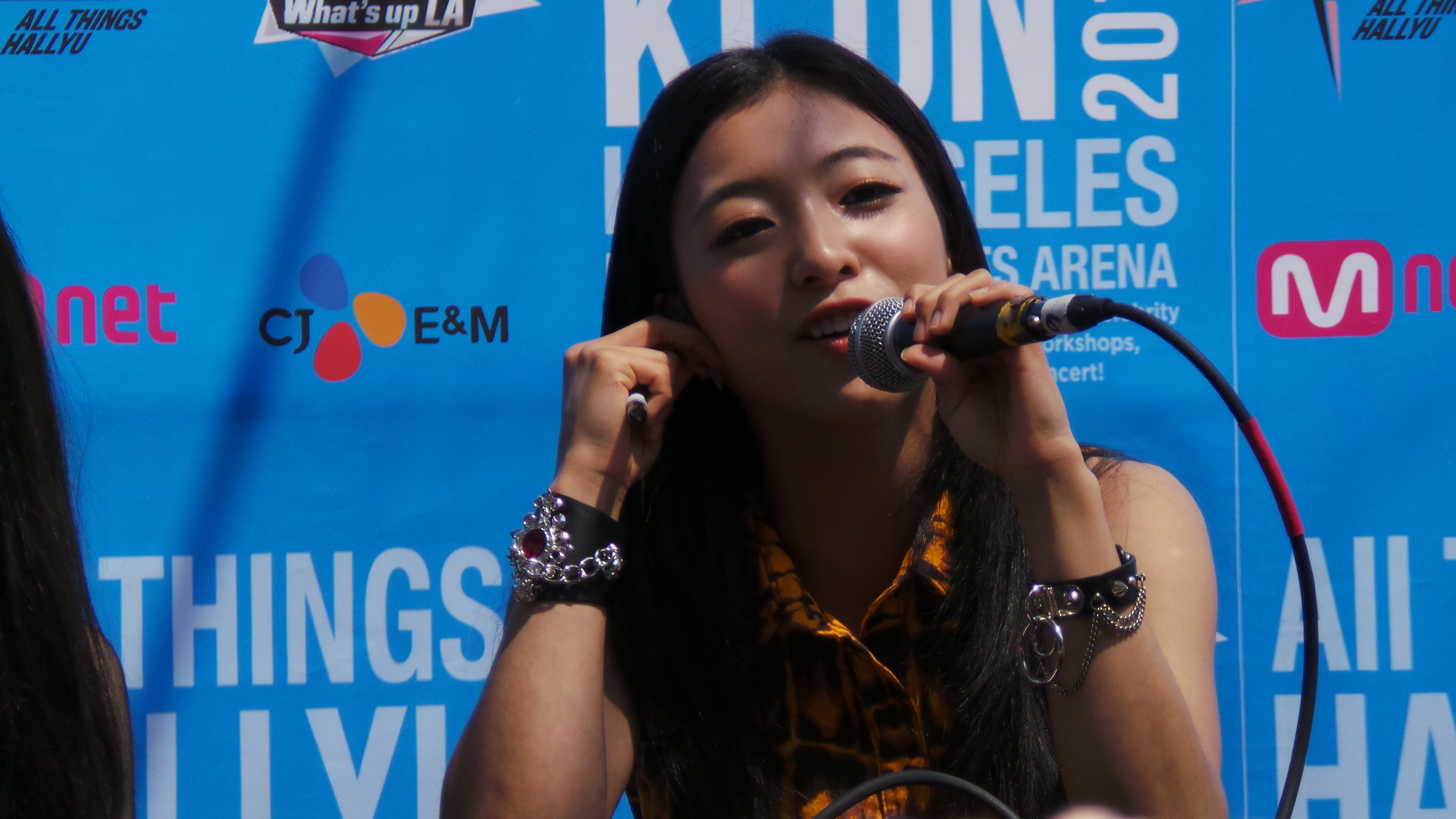 Luna in Los Angeles at the music festival KCON 2013.